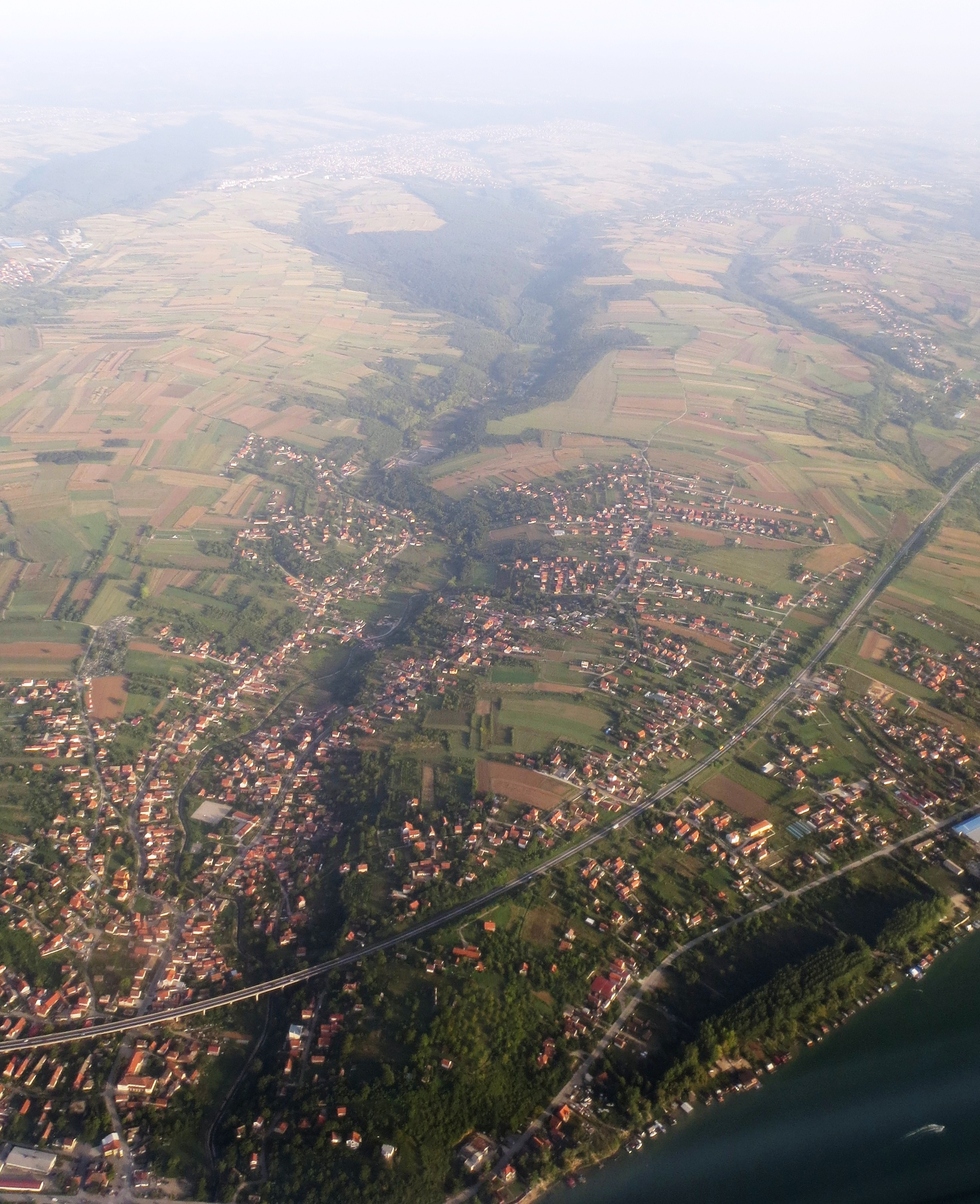 Ostružnica by Sava River, in the municipality of Čukarica in southeastern Beograd District, Serbia